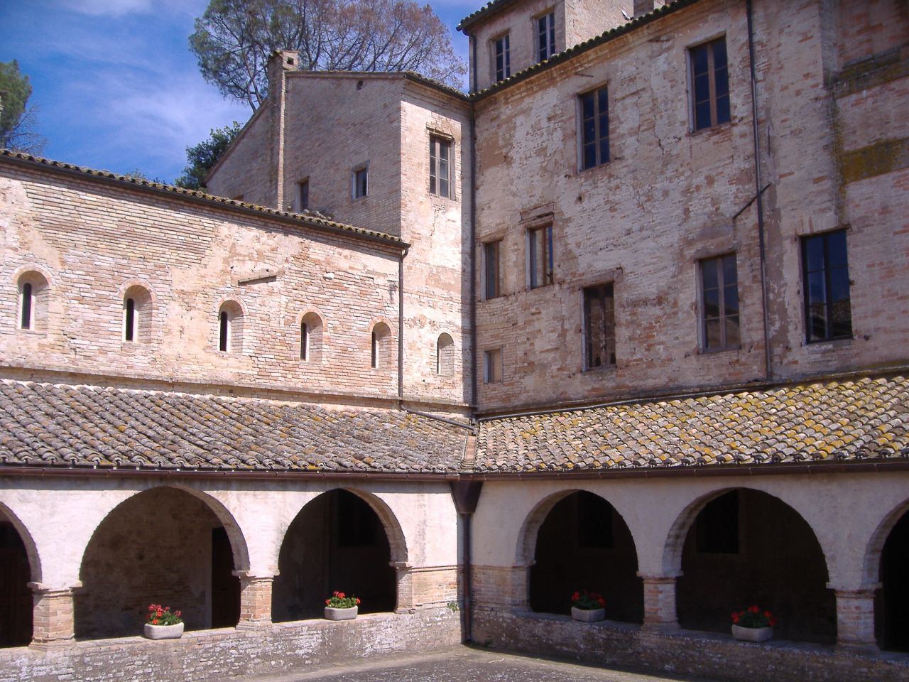 Abbazia di Chiaravalle di Fiastra — in the Marche region, eastern central Italy. Romanesque & Gothic cloisters.